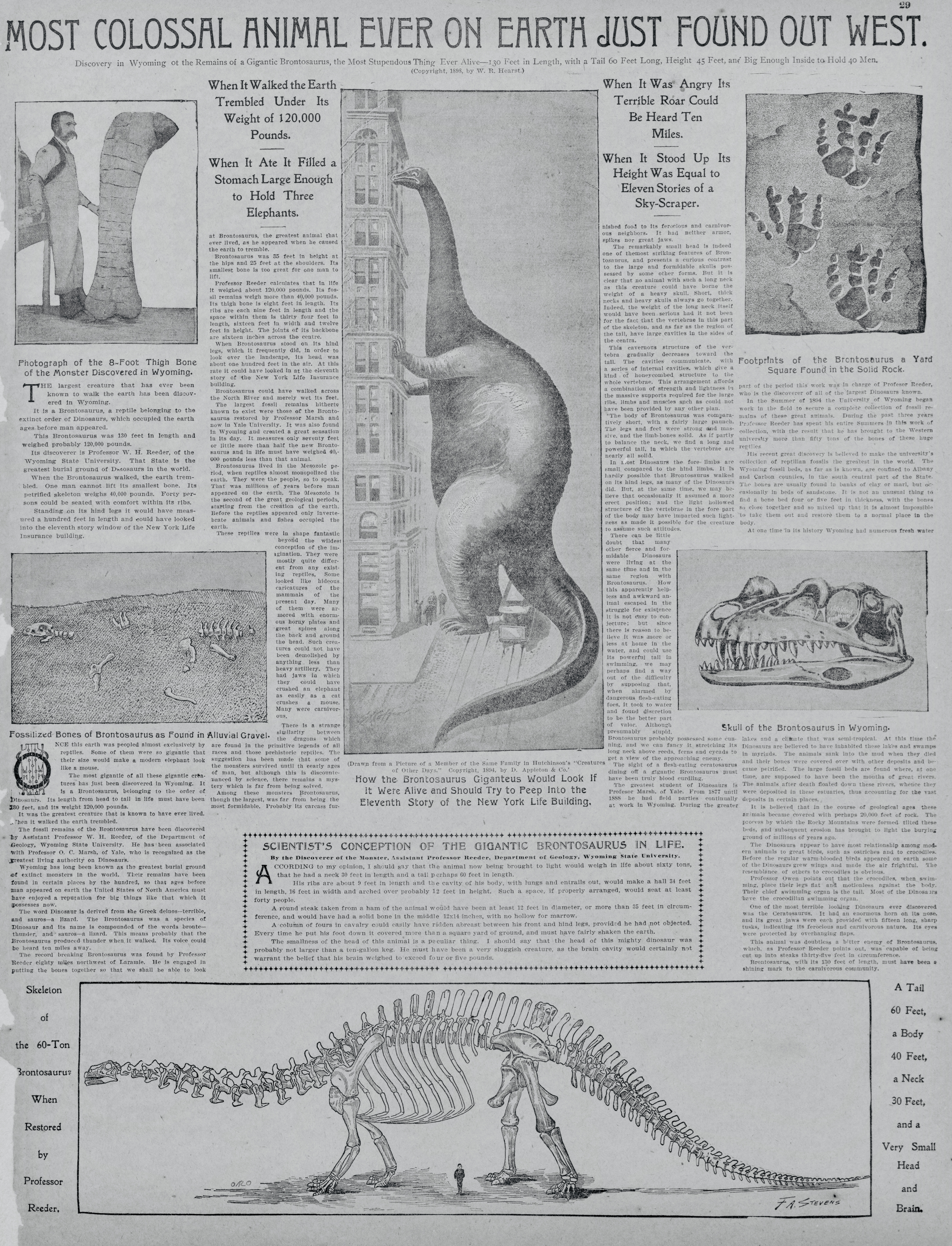 New York journal and advertiser (New York [N.Y.]), December 11, 1898, (CHRISTMAS NUMBER)